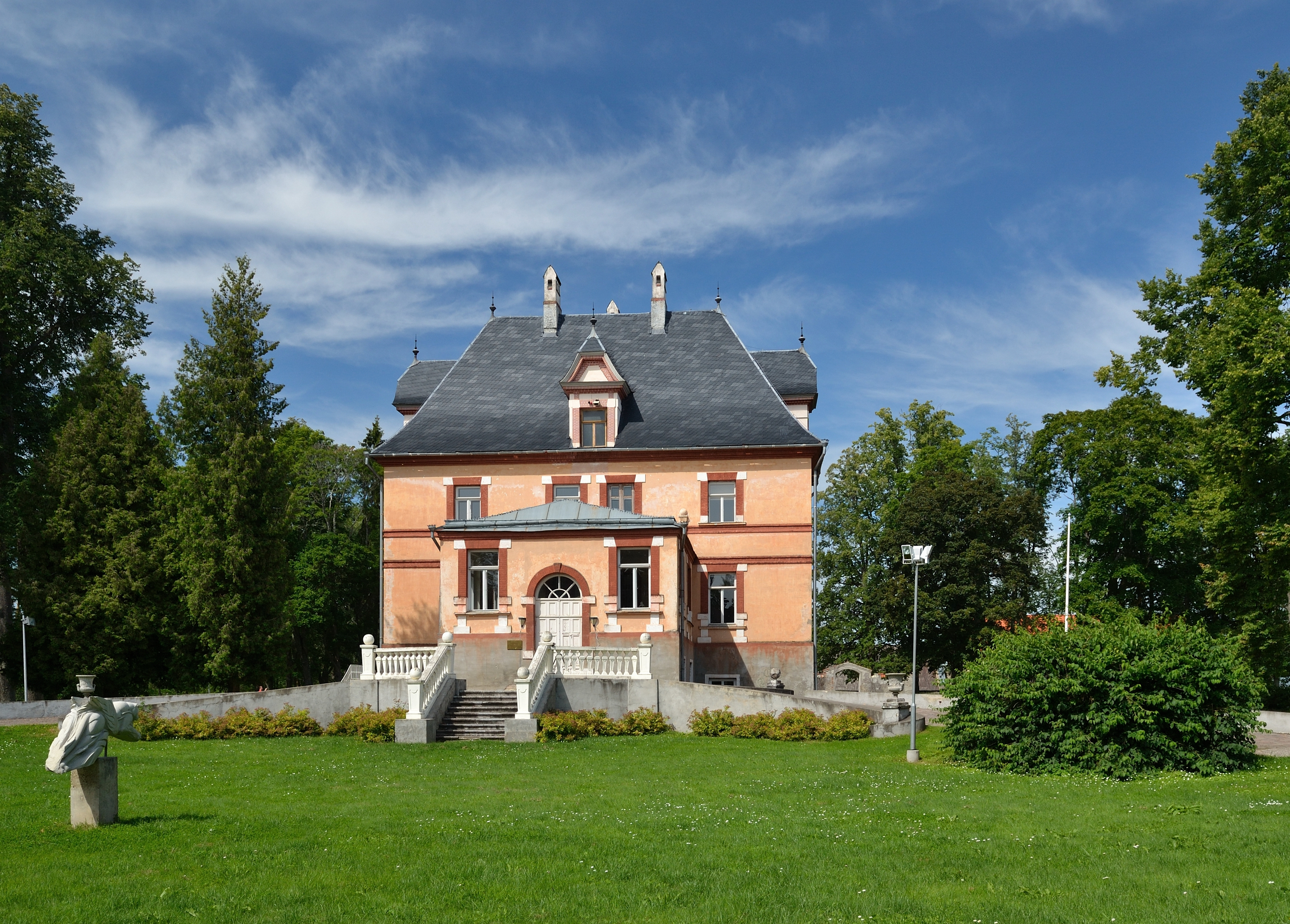 Mooste manor main building